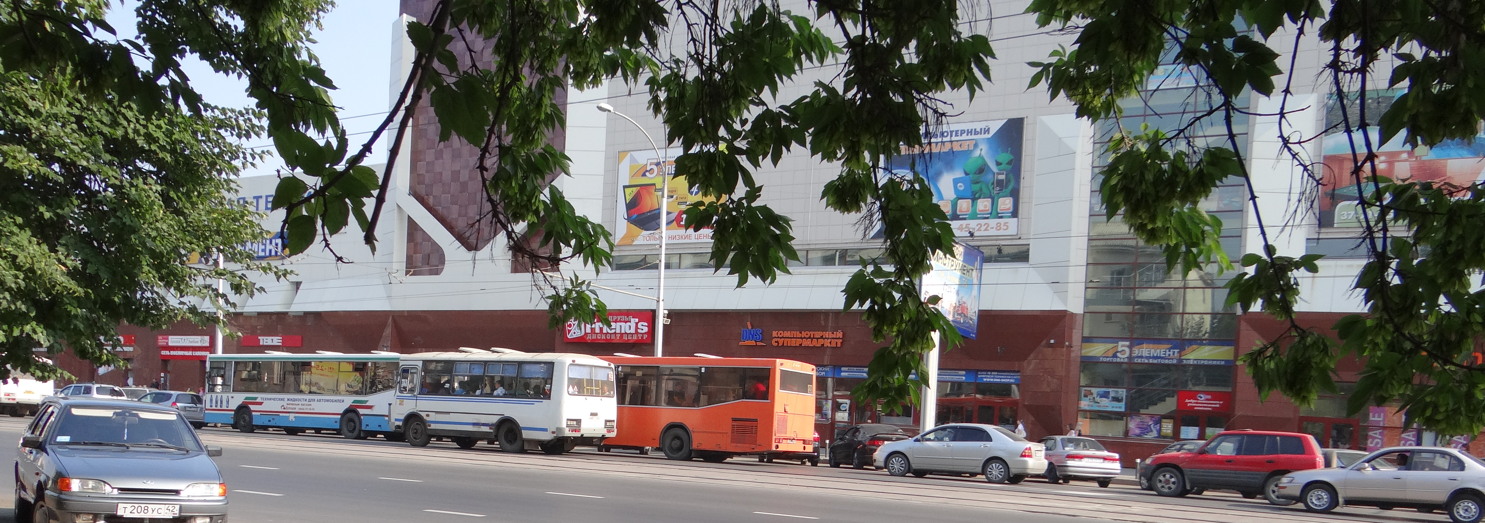 Tsentralnyy rayon, Kemerovo, Kemerovskaya oblast', Russia.